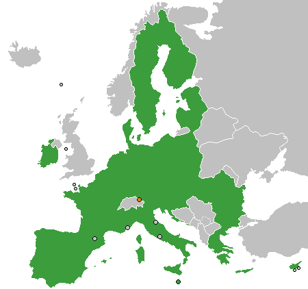 Locator map for the European Union and Liechtenstein